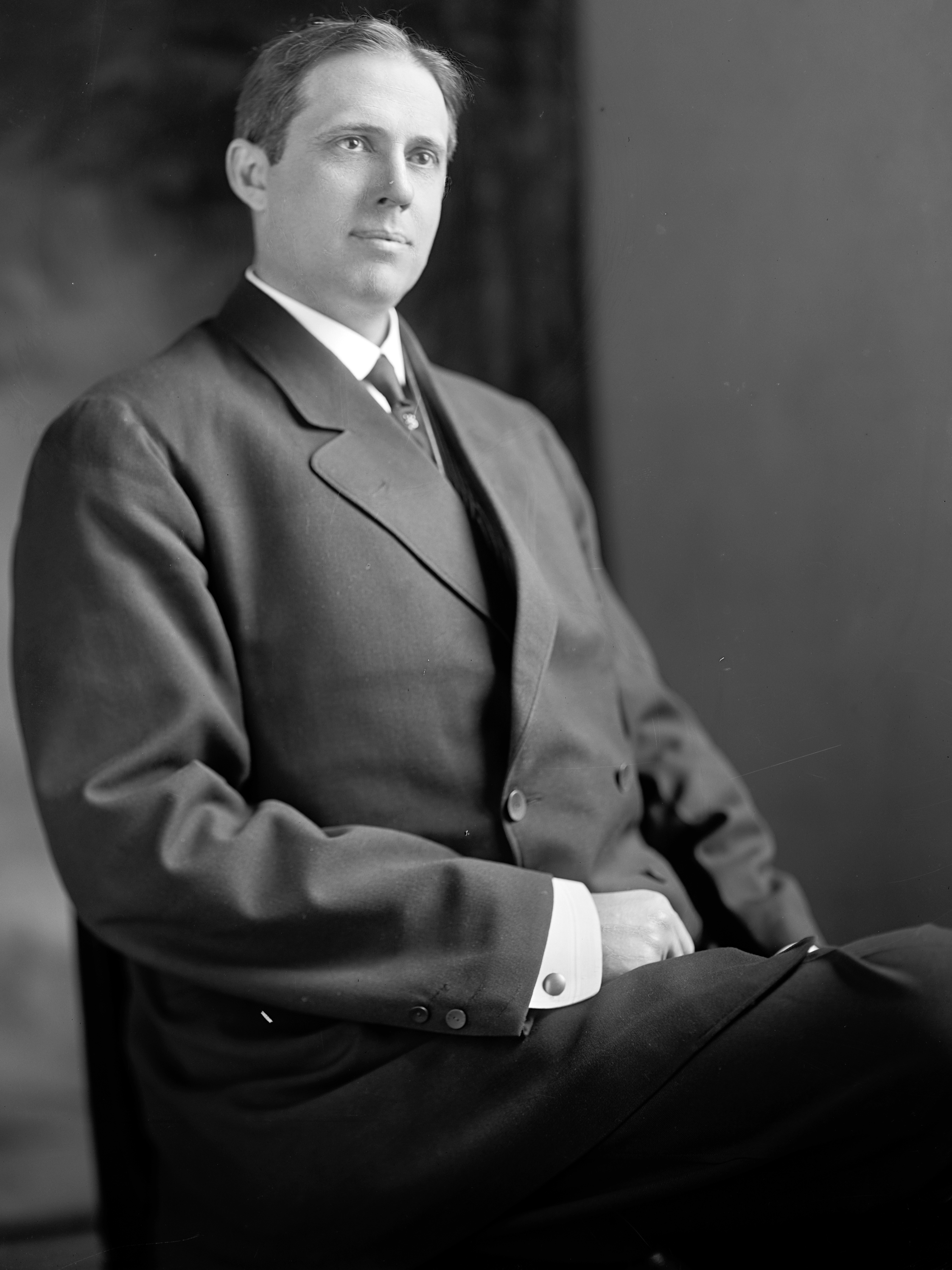 Daniel Read Anthony, US Representative from Kansas